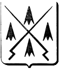 The traditional coat of arms of the "Rôtisseurs" - Confrérie de la Chaîne des Rôtisseurs This image is indicative of a society that went defunct in 1793. Therefore, I propose that the age of the image is very likely over a hundred years old, and therefore in the public domain. Image derived from Category:Coat of arms images